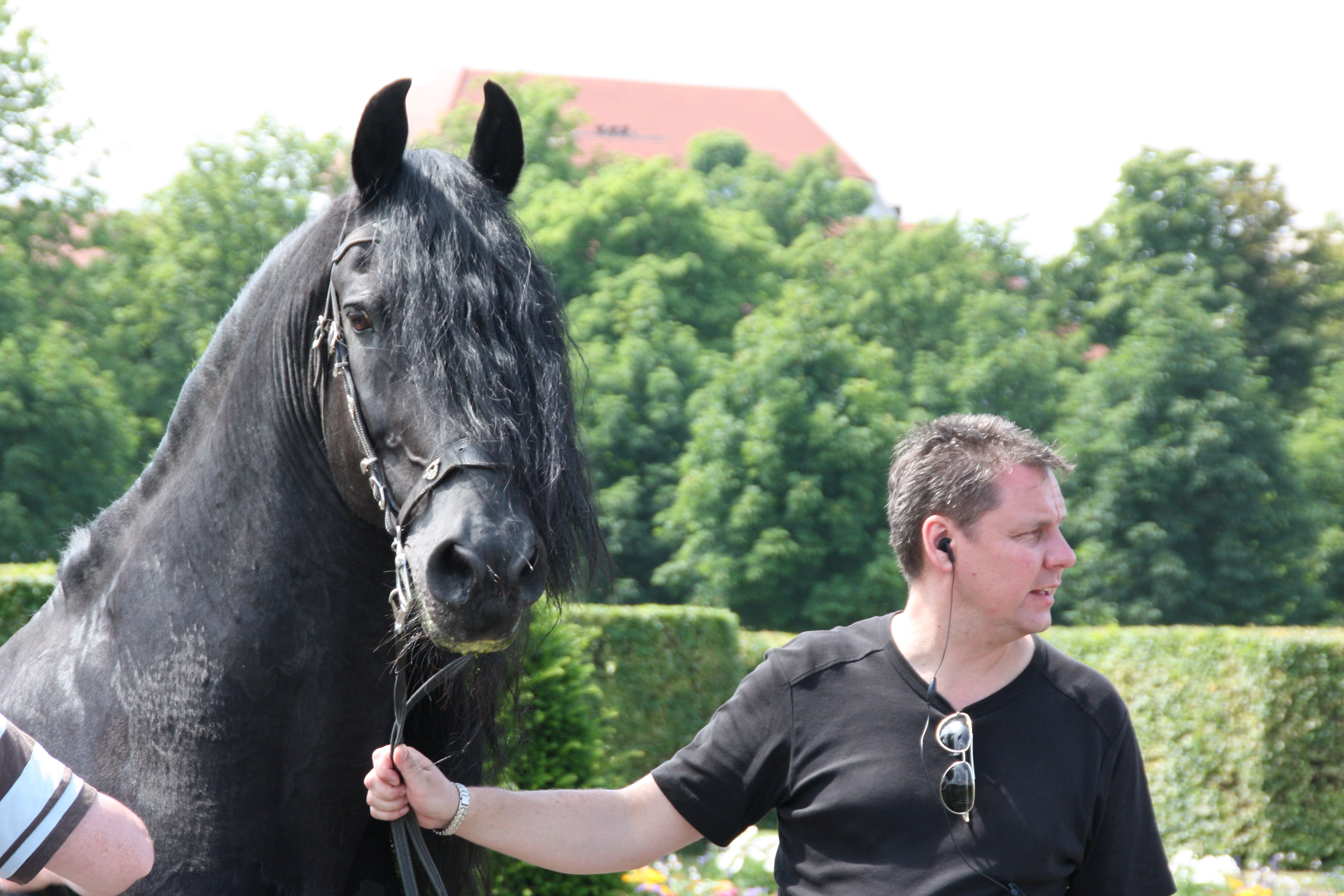 Shooting long reins